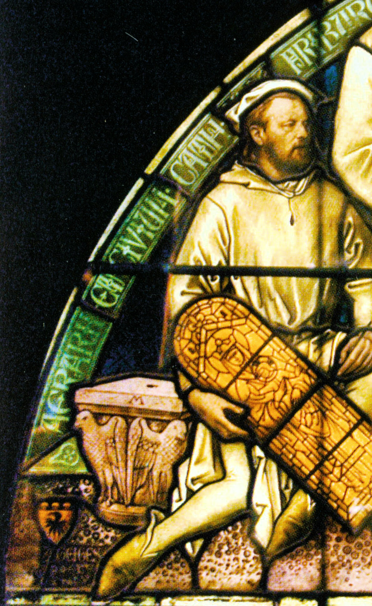 Picture of Freiburg artist Fritz Geiges in the lower left corner of a stained glass window in St. Johann church